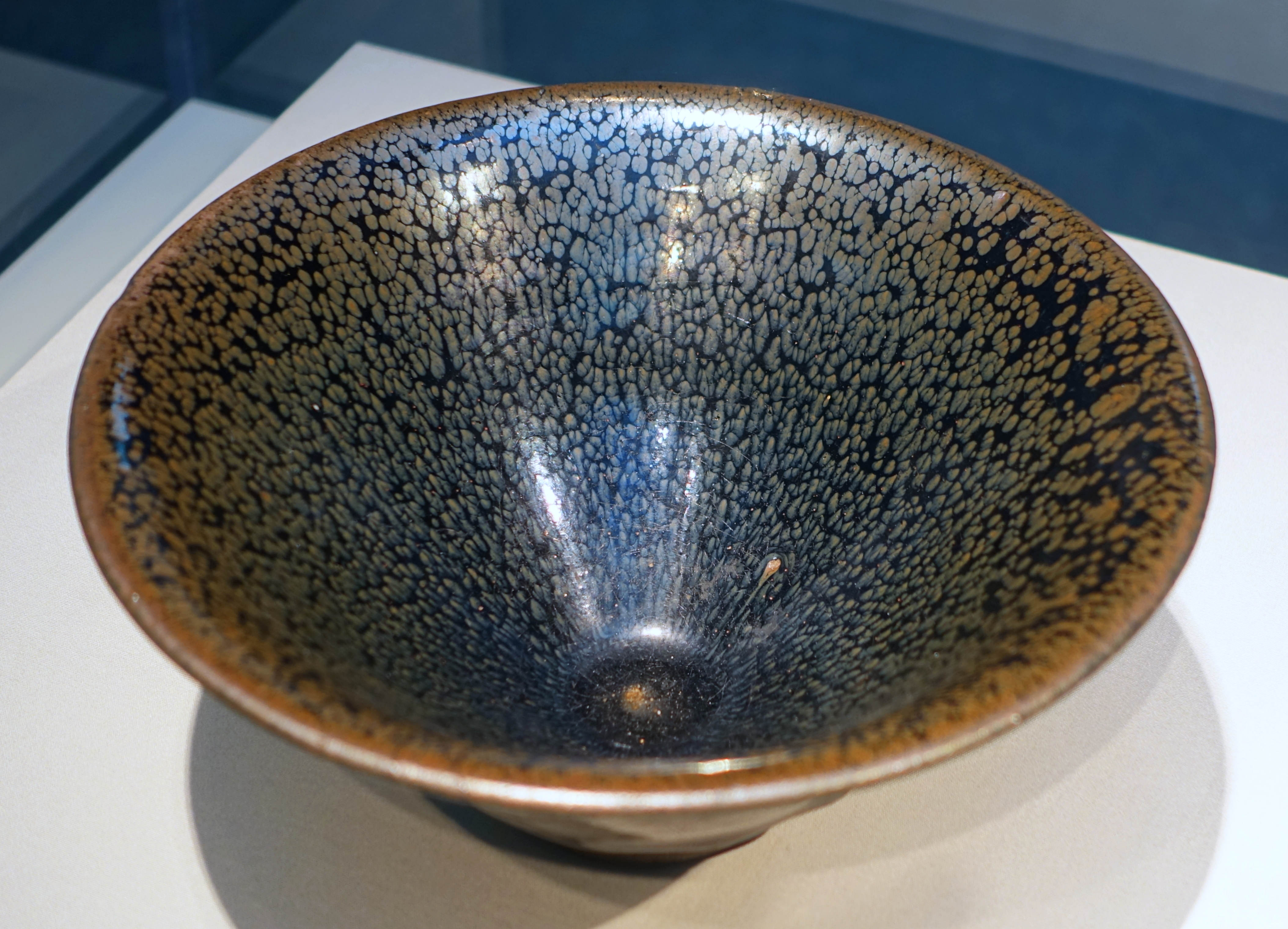 Exhibit in the Freer Gallery of Art, Washington, D.C., USA.